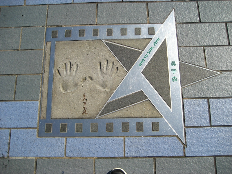 Avenue of Stars (John Woo)